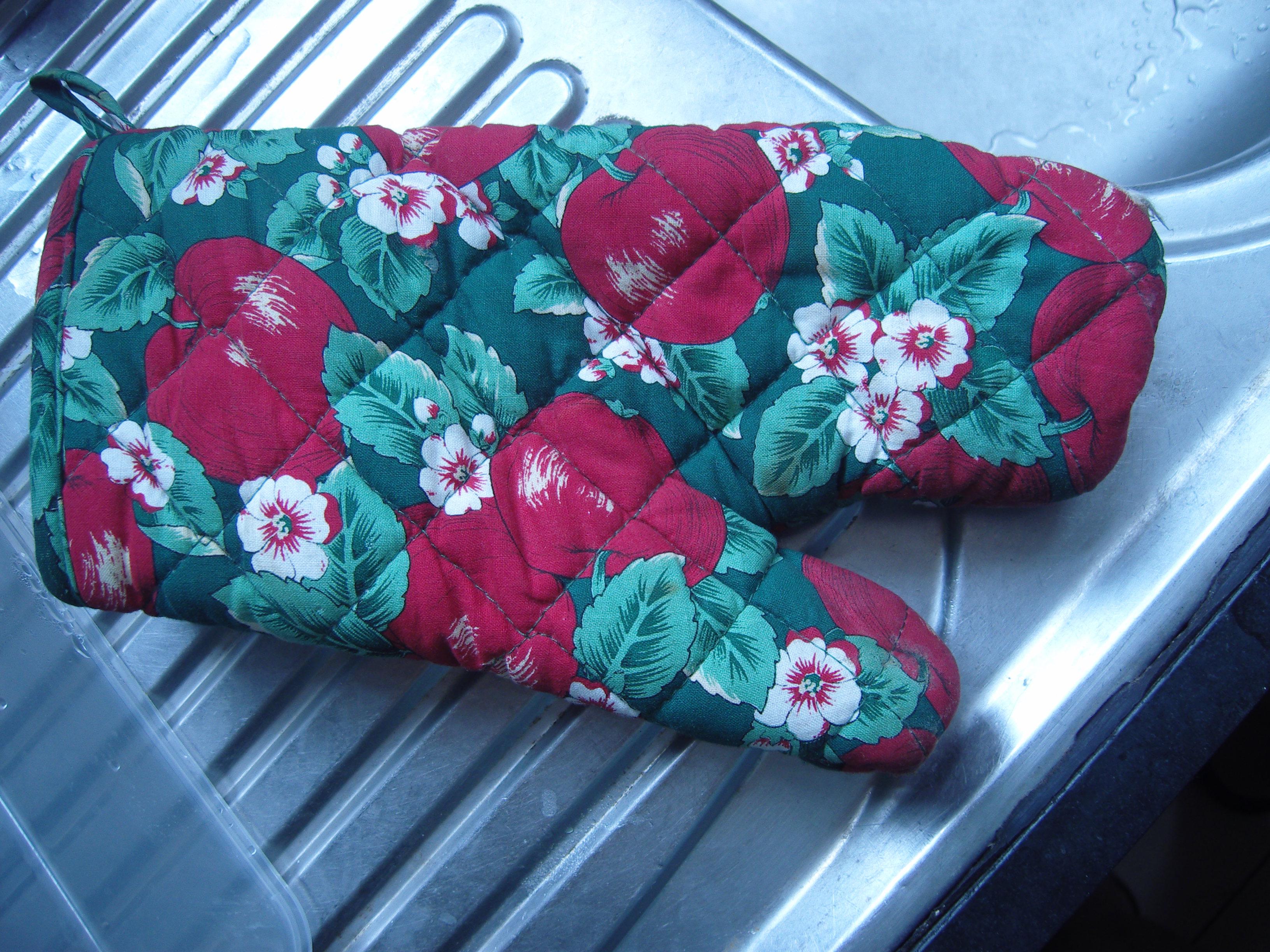 Insulated gloves